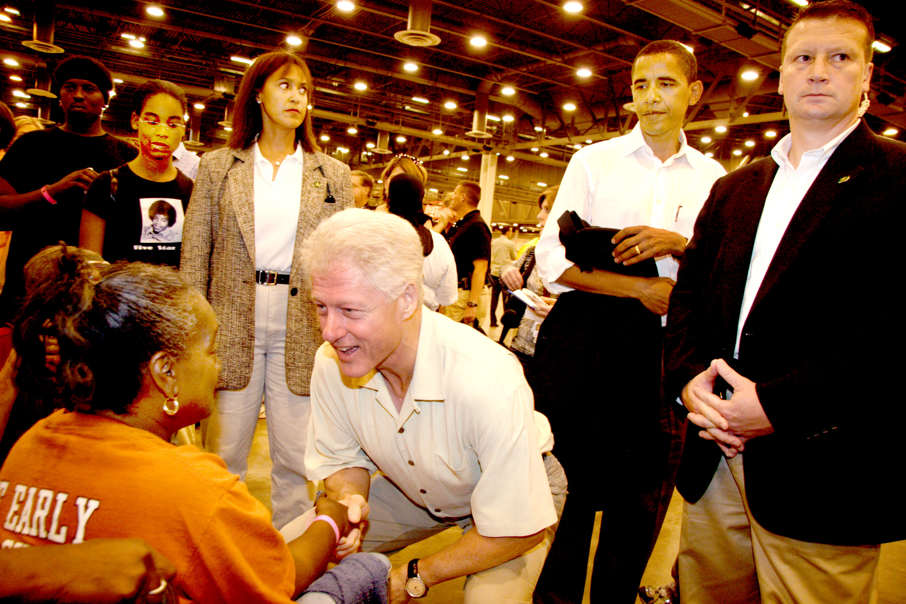 Houston, TX, September 5, 2005- President Bill Clinton greets an evacuee in the Reliant Center at the Houston Astrodome. He and President George Walker Bush were at the Astrodome to announce a new relief fund. In the background holding his jacket is Senator Barack Obama. Photo by Ed Edahl/FEMA